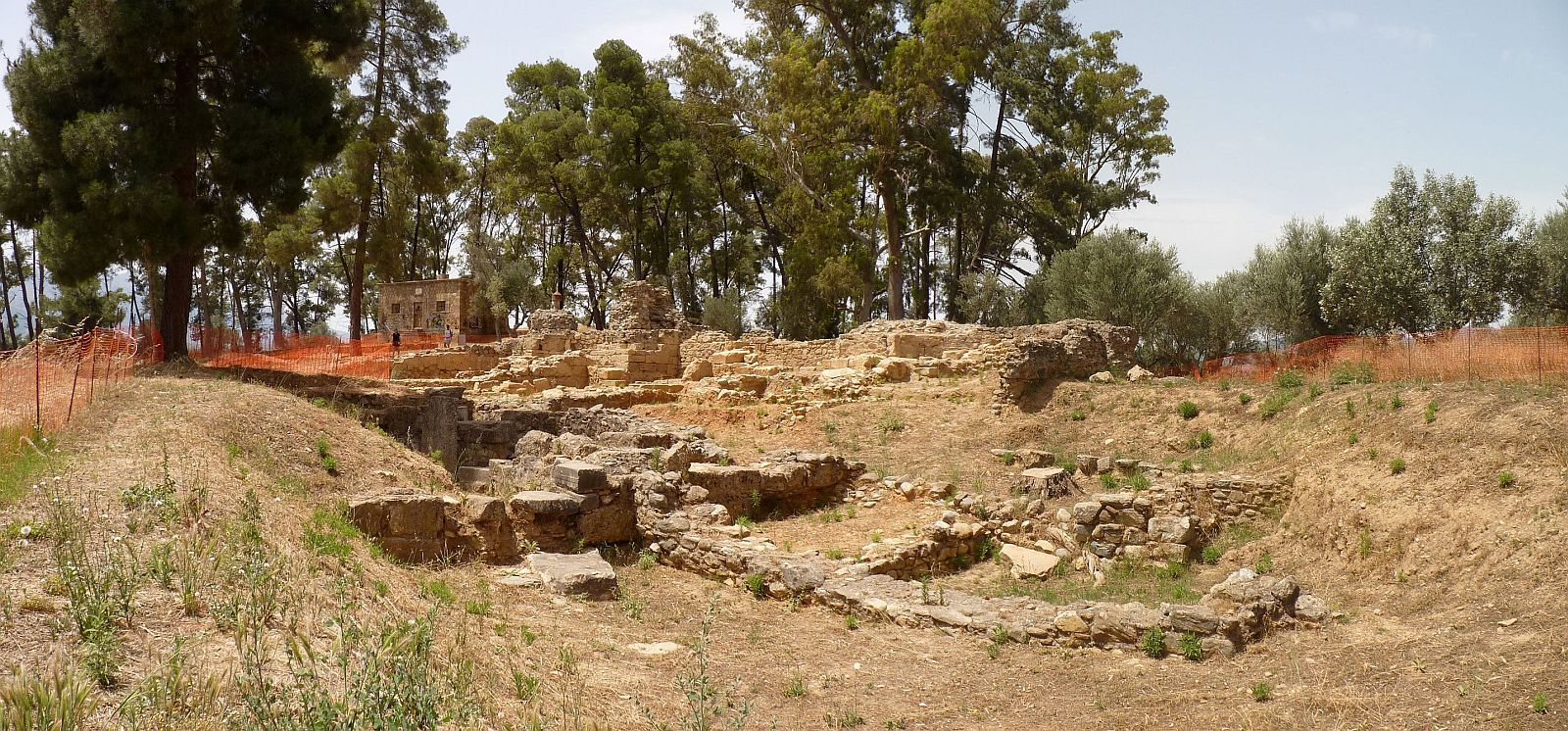 Sparta (Doric Greek: Σπάρτα, Spártā; Attic Greek: Σπάρτη, Spártē), or Lacedaemon, was a prominent city-state in ancient Greece, situated on the banks of the Eurotas River in Laconia, in south-eastern Peloponnese. You can use the images for free. But a link to - I would be happy :)